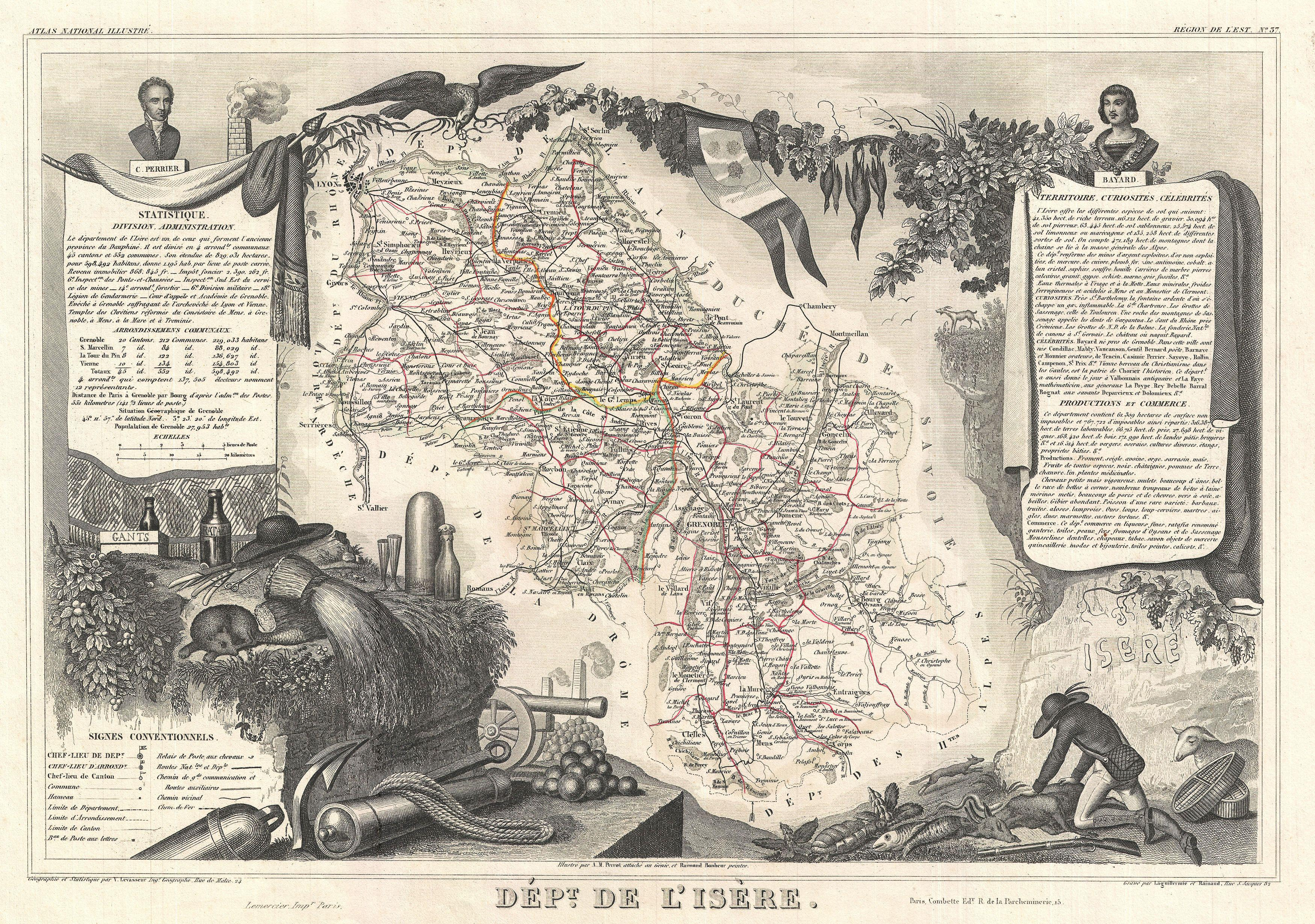 A 1852 map of the French department Isere. It is presented with a statistic description, information about the territory, curiosities and famous people, production and trade. The map is surrounded by portraits of Casimir Perrier and Bayard, pictures of an eagle, vine, a flag of Grenoble city, game, chamois, fish, chimneys, guns and cannonballs, a glove box, ratafia, knives and cissors, hat and glassware. Published by V. Levasseur in the 1852 edition of his Atlas National de la France Illustrée.